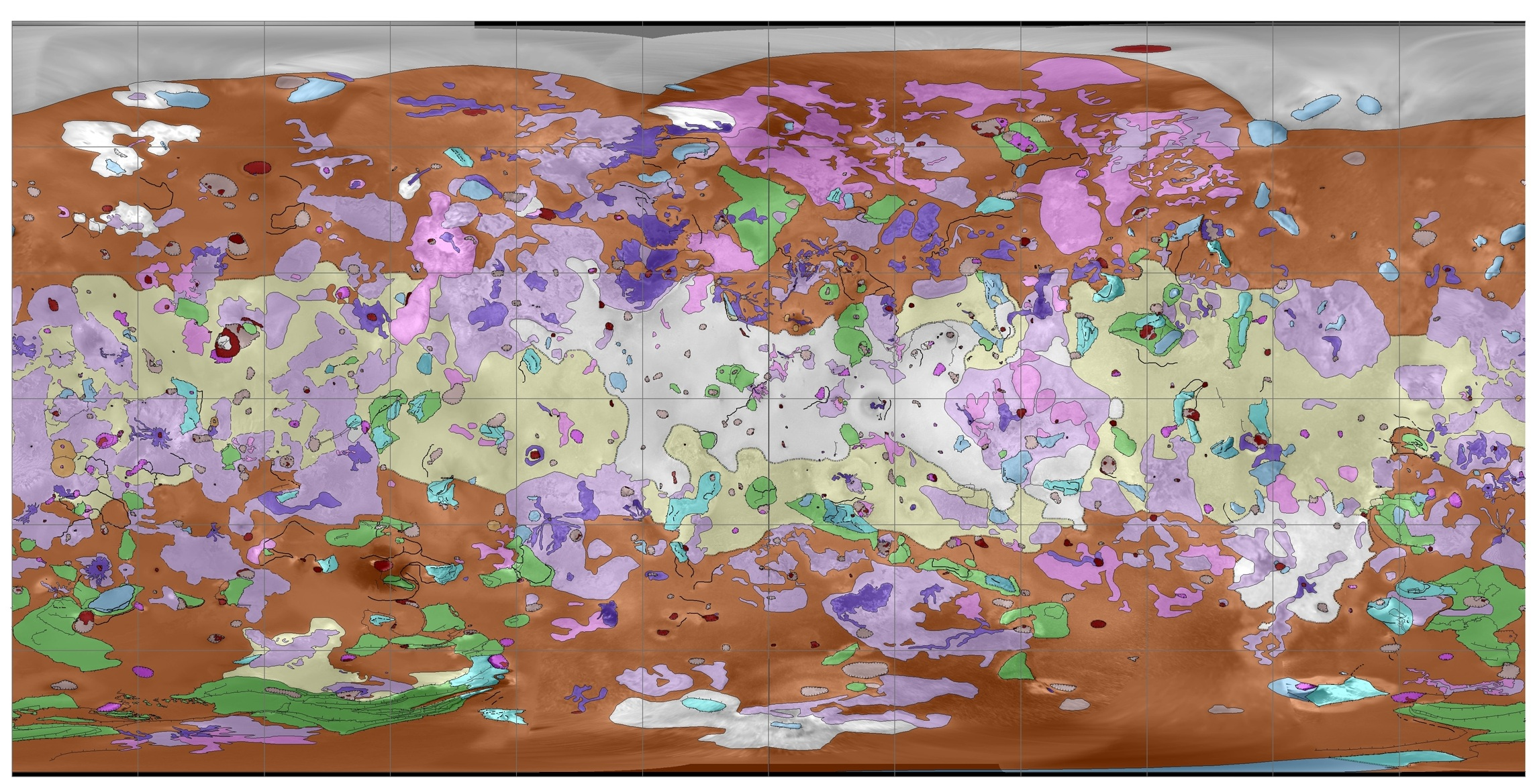 To present the most information in a single view of Jupiter's moon, Io, a global color mosaic, derived from Galileo color images, was superposed on a higher resolution image mosaic, derived from merging the best resolution images from spacecrafts Galileo and Voyager 1. For a more detailed explanation of the different surface features shown here, please reference the USGS's publication Geologic map of Io, available at File:Io geological map sim3168 sheet.pdf.